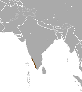 Malabar Large-spotted Civet (Viverra civettina) range